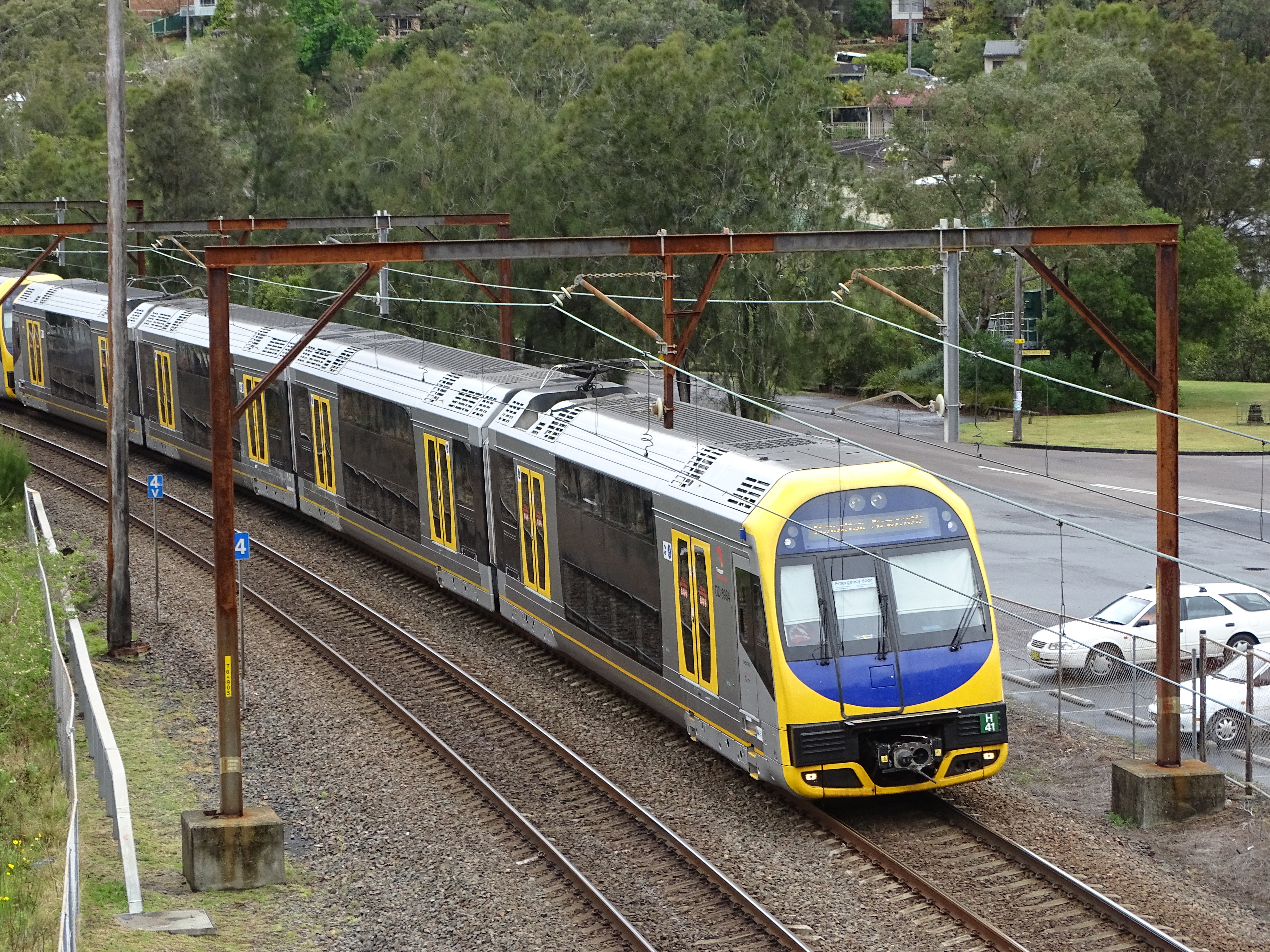 Newcastle bound Central Coast & Newscastle serivce approaching Tascott station.